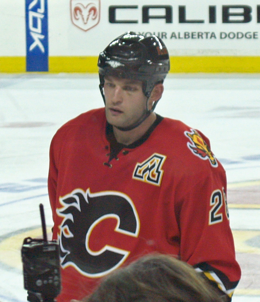 Robyn Regehr of the Calgary Flames. November 17, 2006.